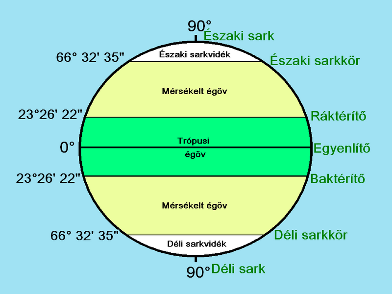 The Earth's poles, principal latitudes and tropical zones